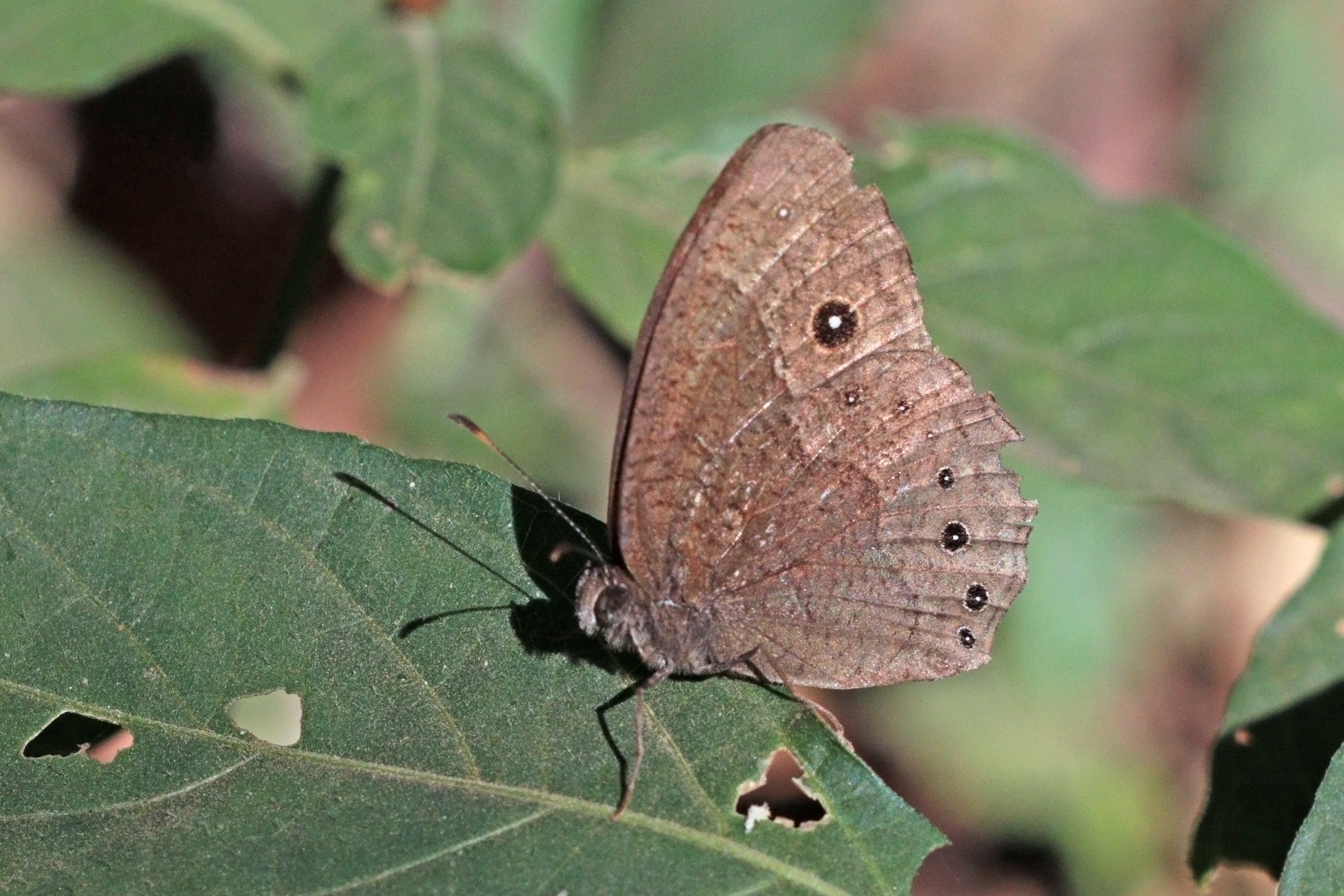 Squinting bush brown (Bicyclus anynana anynana), Harenna Forest, Ethiopia